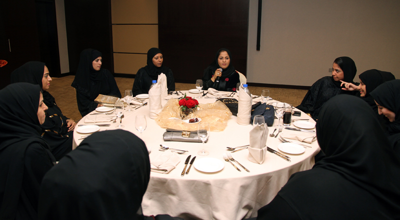 Qatar Women's Sport Committee's Board members during an Iftar dinner. Pic by Vinod Divakaran